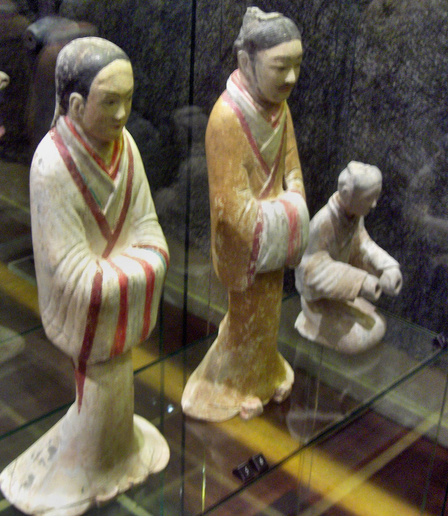 Servant and adviser from lower or middle class; Xi'an, Western Han Dynasty